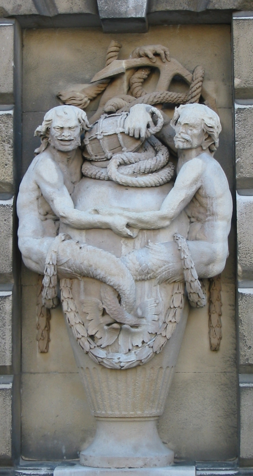 Relief on Somerset House, London